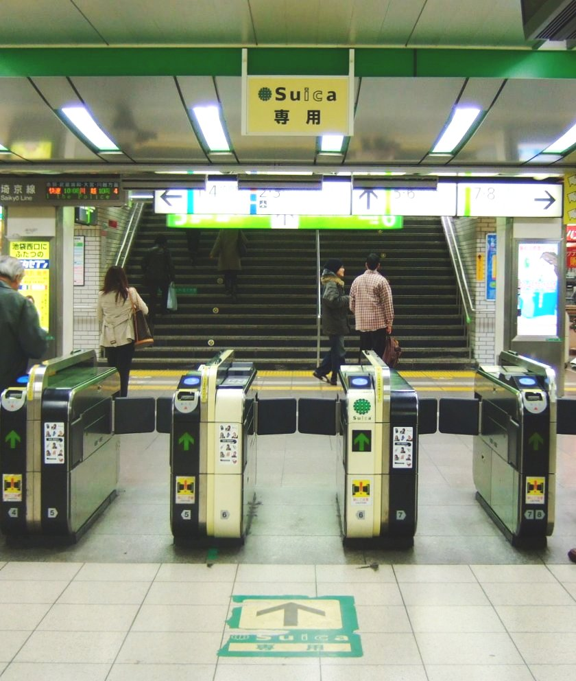 JR Ikebukuro Sta. (North entrance)